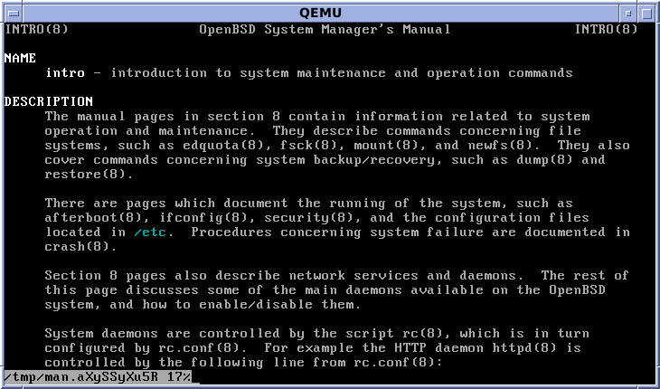 OpenBSD section 8 intro manpage, running in a text console. OpenBSD 5.3, running in a QEMU VM.